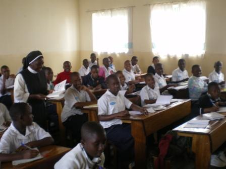 Lycée Amani in Goma